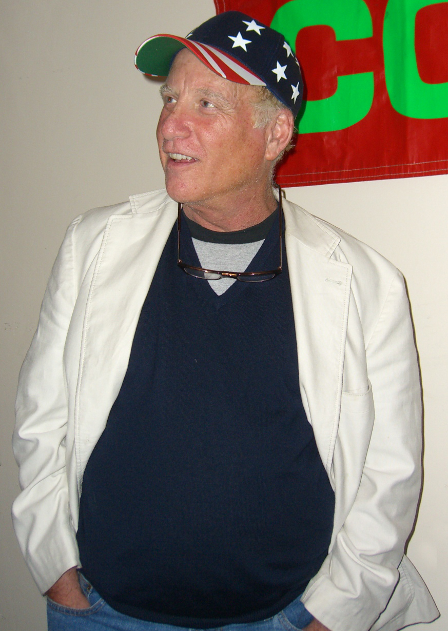 Actor Richard Dreyfuss at the Big Apple Convention in Manhattan, June 8, 2008.